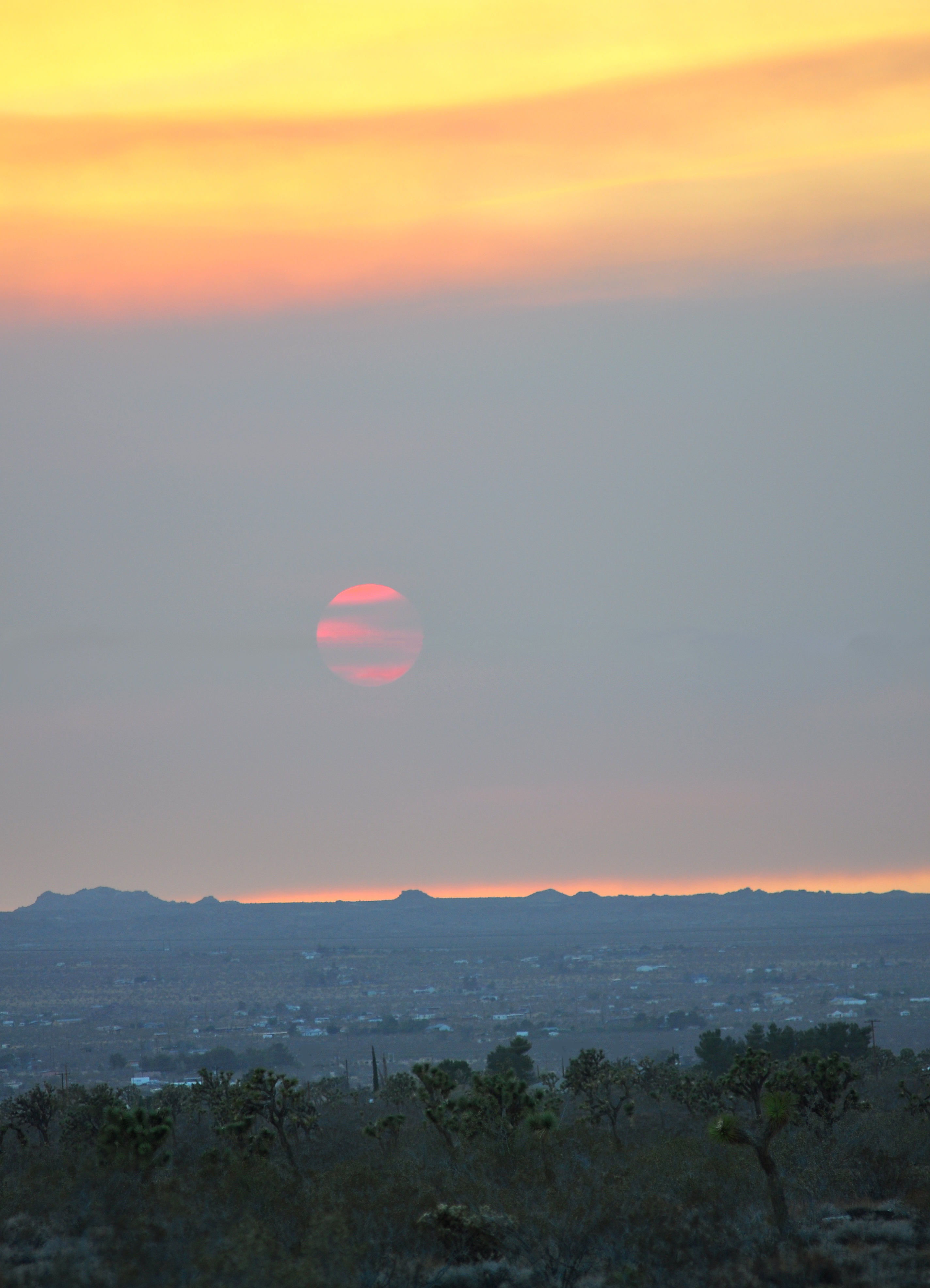 Hazy Mojave sky makes for a surreal sunset in the California desert.